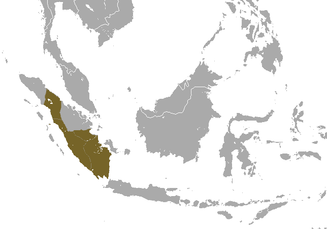 Sumatran Surili (Presbytis melalophos) range